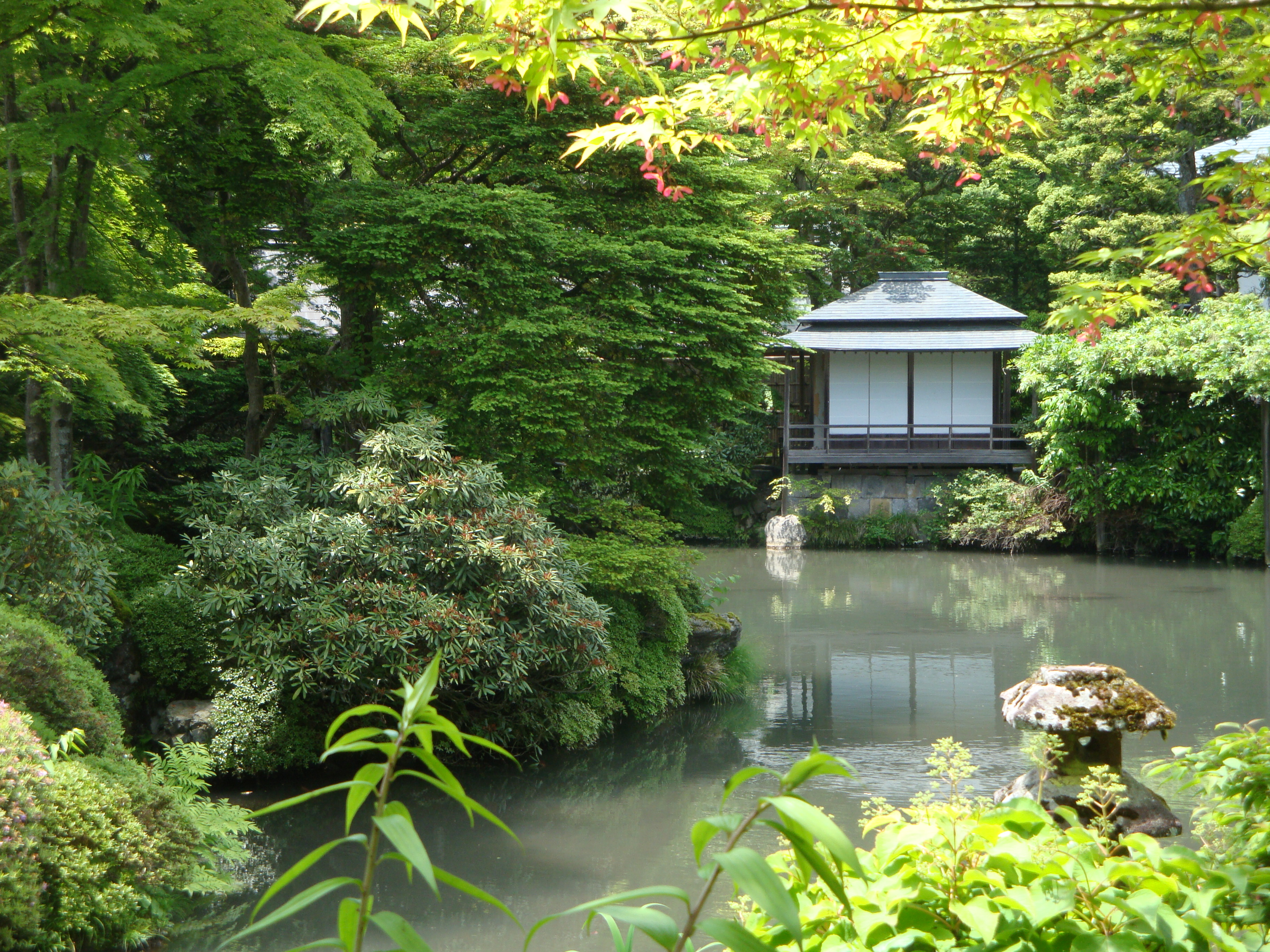 Shōyō-en Garden in Rinno-ji Temple, Nikko. A tea house.